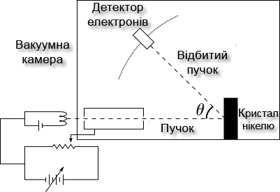 Ukrainian translation of Roshan220195 work File:Davisson-Germer experiment.svg